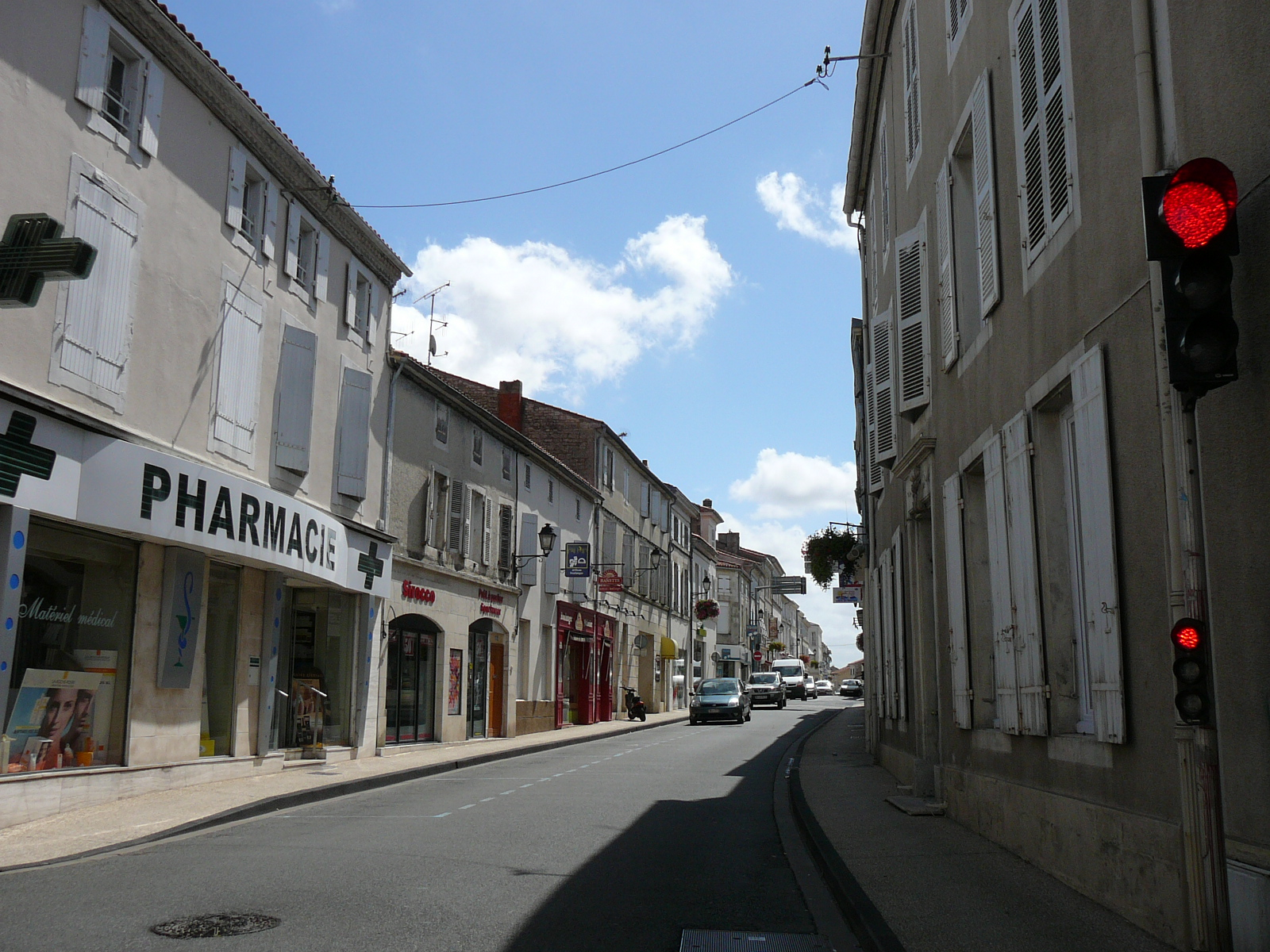 Street in Surgères. Charente-Maritime (17), Poitou-Charentes, France, Europe.